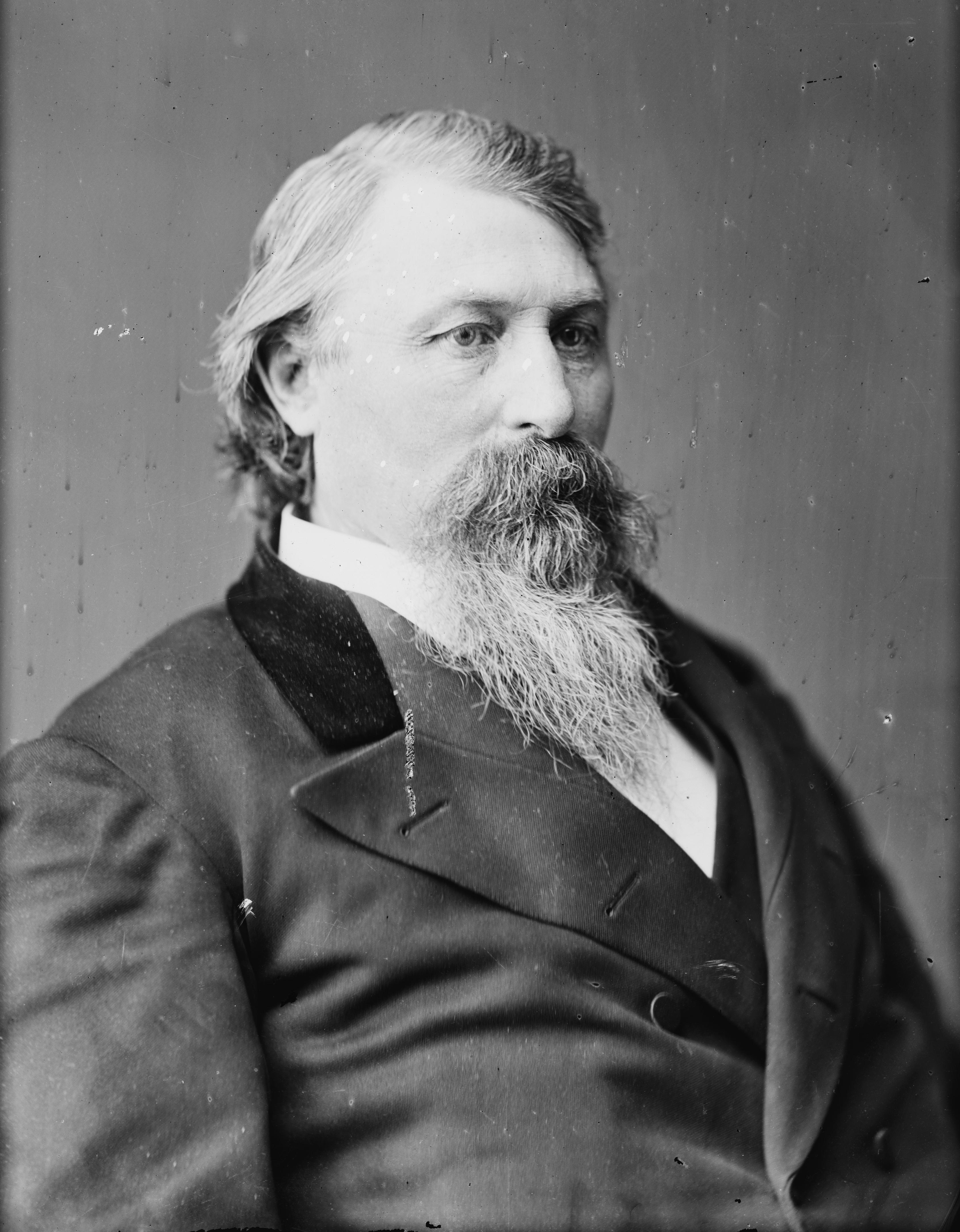 Jeremiah McLain Rusk. Library of Congress description: "Rusk, Hon. J.M. Secty of Agriculture"